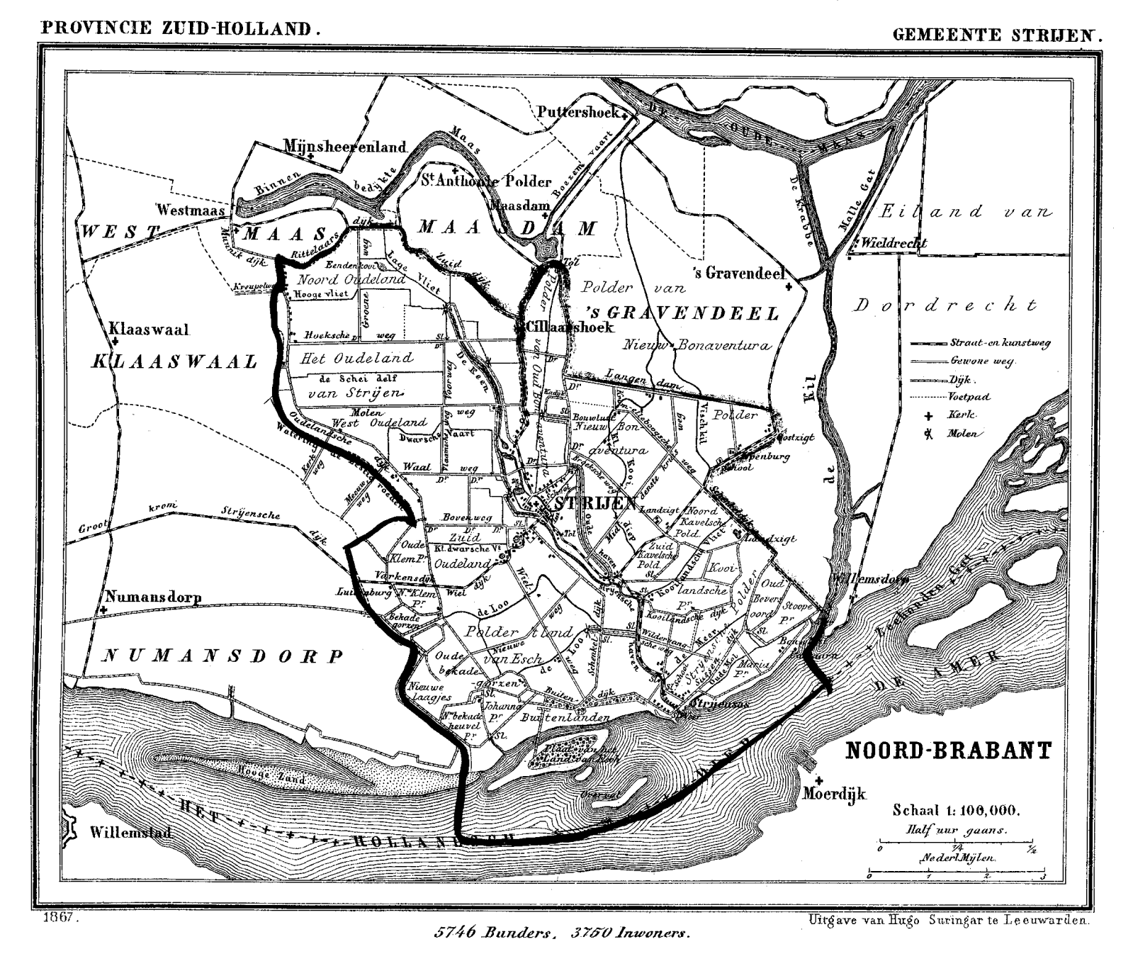 Historic map of Strijen, South Holland, the Netherlands